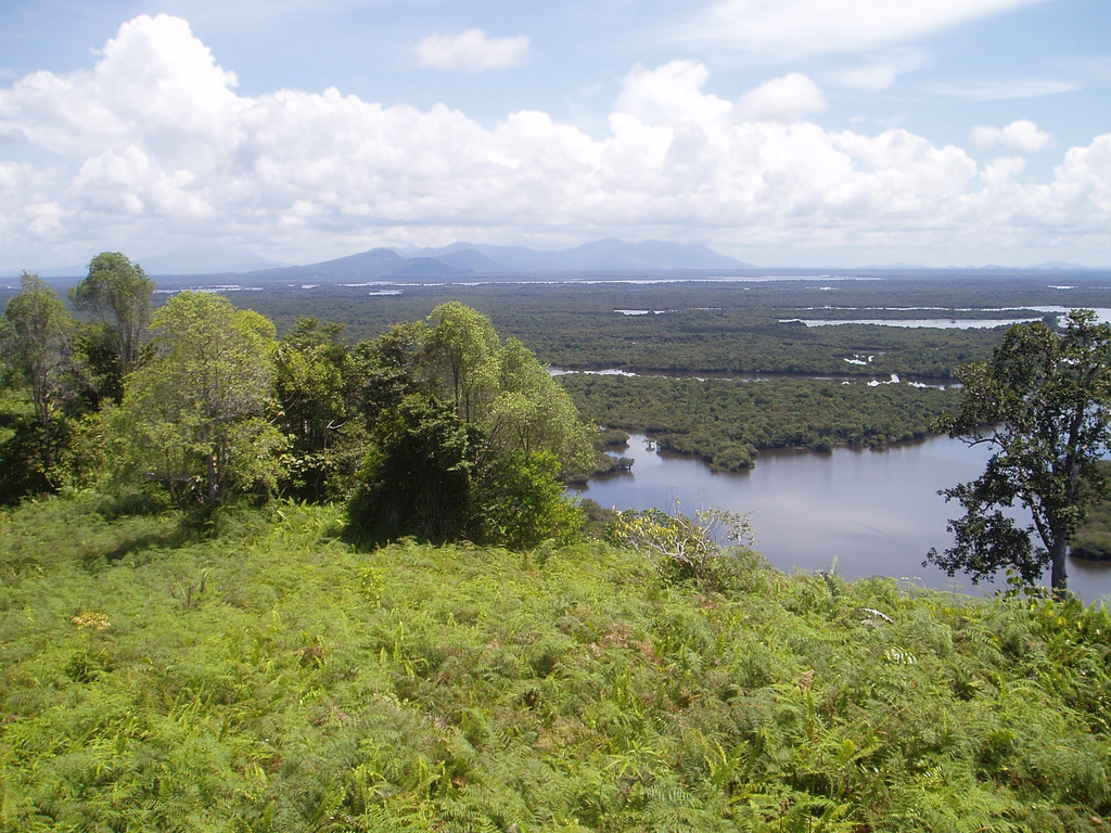 Danau Sentarum, Borneo, Indonesia